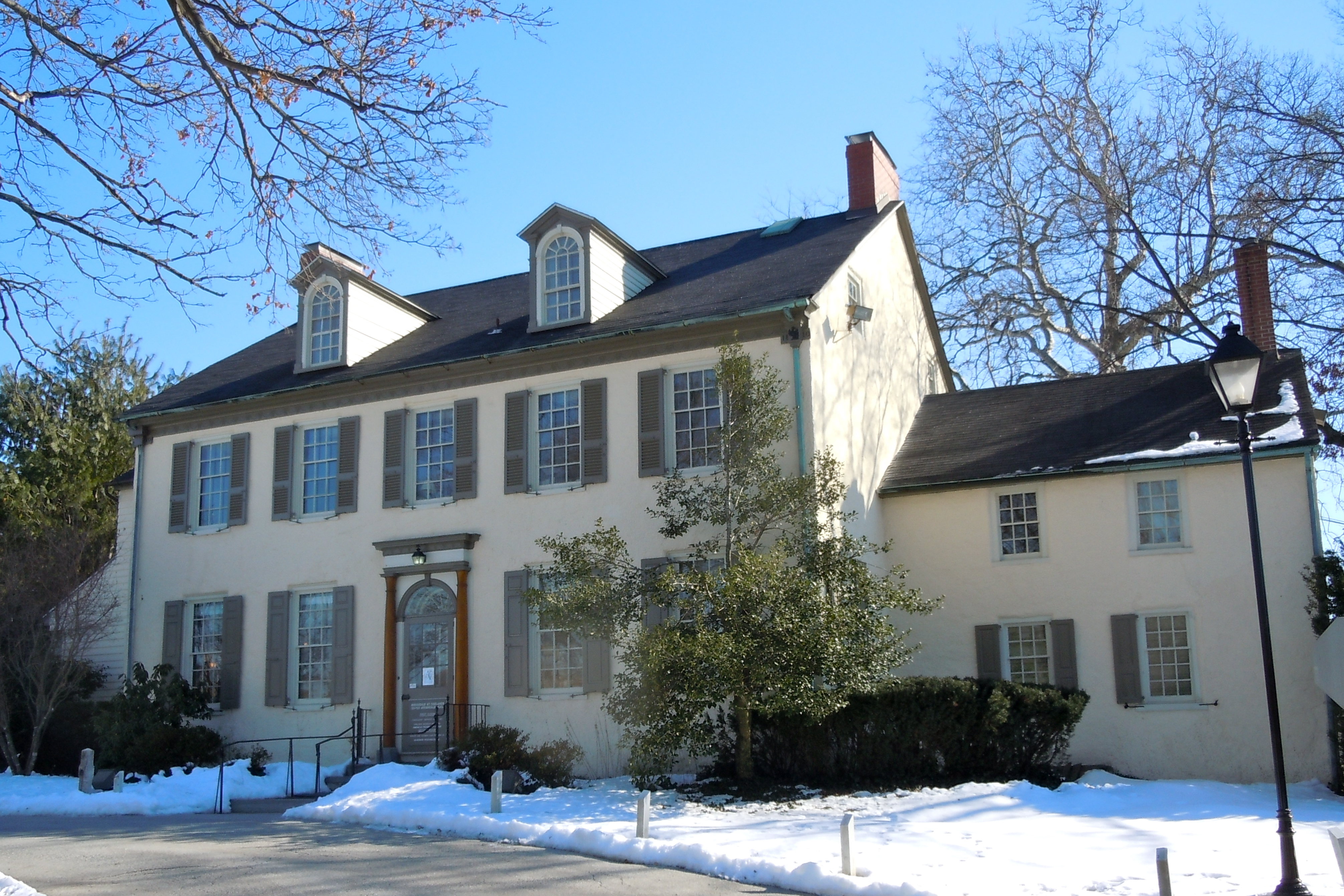 Hunt Downing House on the NRHP since October 11, 1990. At 600 West Lincoln Highway (US 30) near Exton in West Whiteland Township, Chester County, Pennsylvania. Not that a few miles west on same road is a Hunt Downing House in the East Lancaster Street Historic District in Downingtown. Obviously different buildings with different addresses.